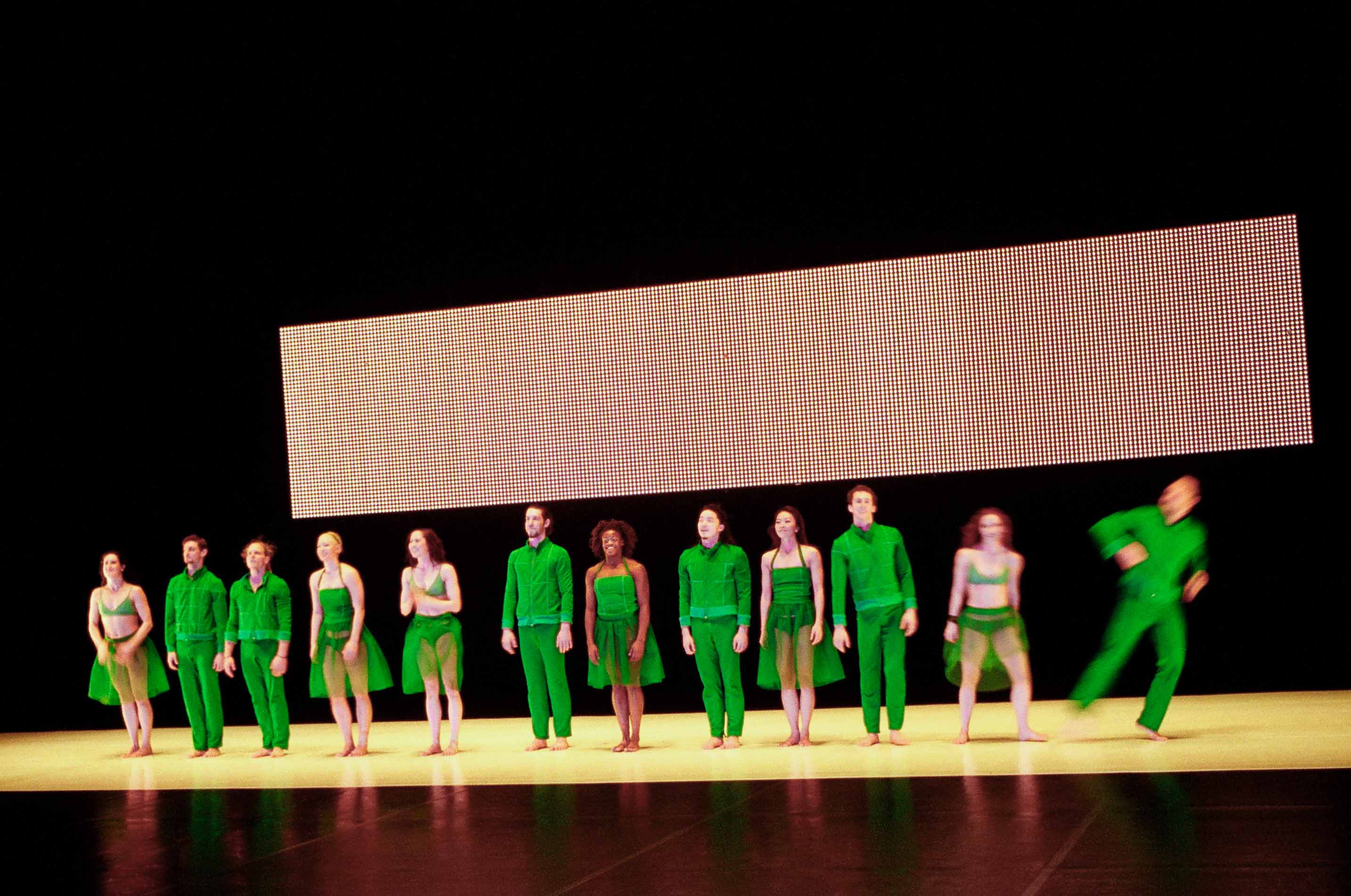 G par Garry Stewart Theatre de la ville 2008